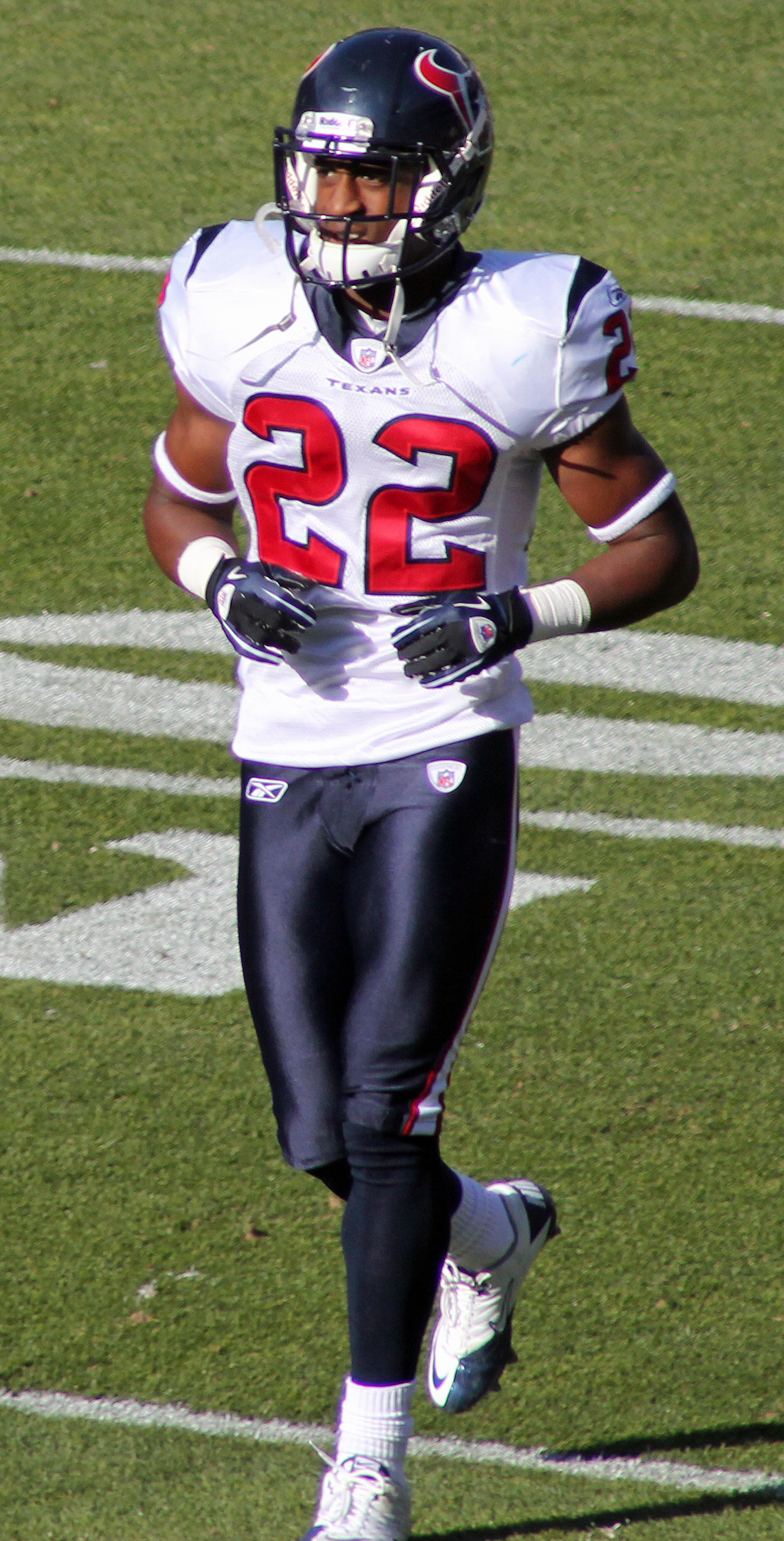 Sherrick McManis, a player on the Houston Texans American football team.